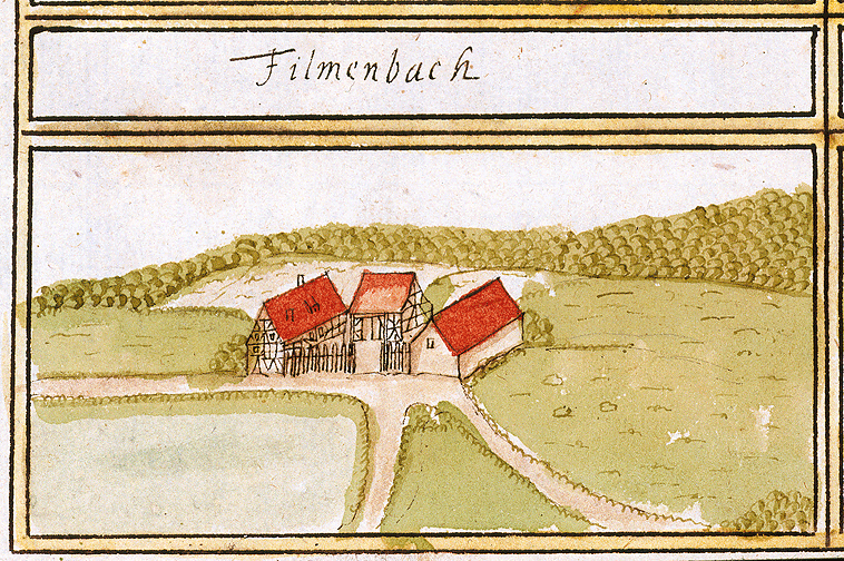 View of Füllmenbacherhof, Diefenbach, Sternenfels, from the forest register books created by Andreas Kieser